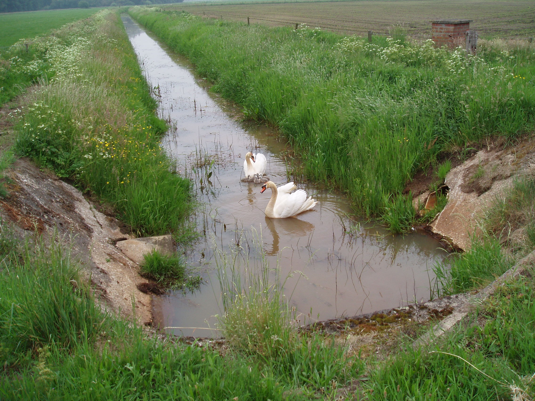 Mute swan in the Soestwetering, Salland, Overijssel.